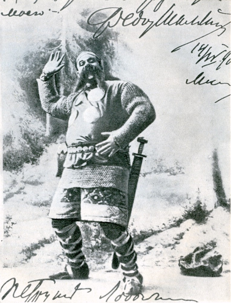 Russian bass, Feodor Chaliapin (1873 - 1938)